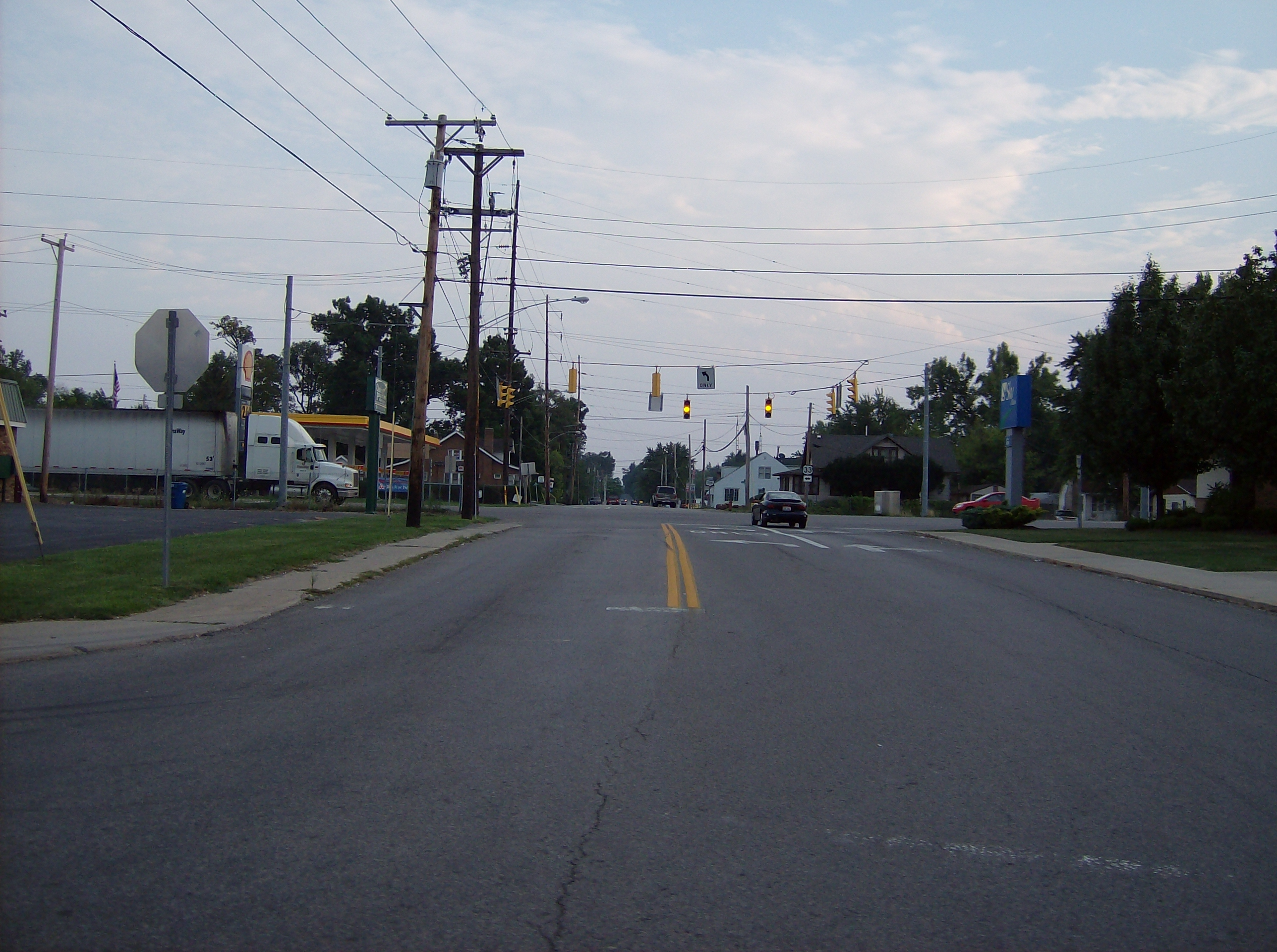 Along southbound State Route 708 in downtown Russells Point, Ohio, United States.